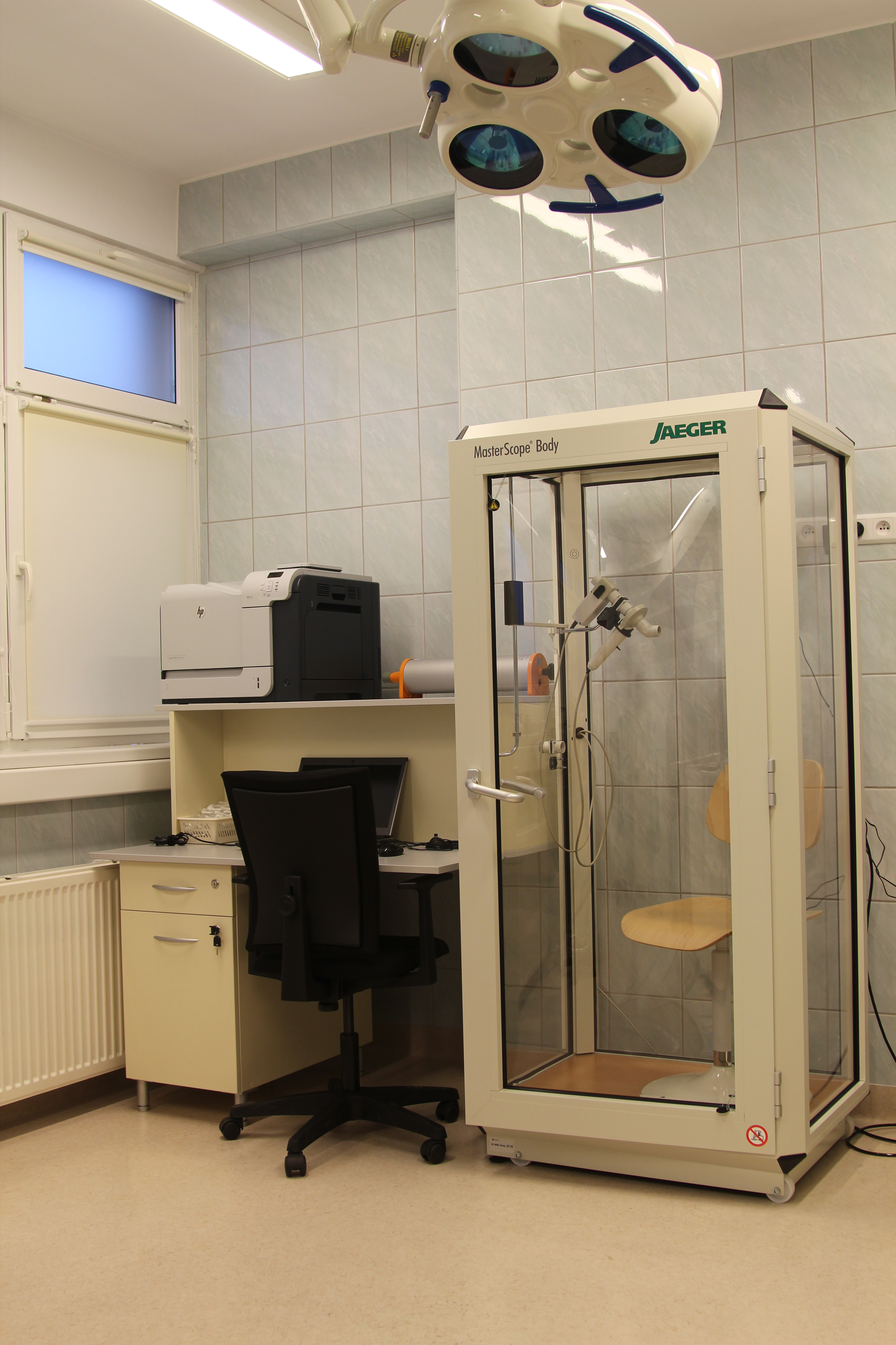 Plethysmograph MasterScope Body. Photographed at Center of Clinical Research, Wroclaw, Poland